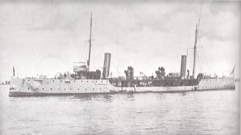 British torpedo gunboat HMS Hazard